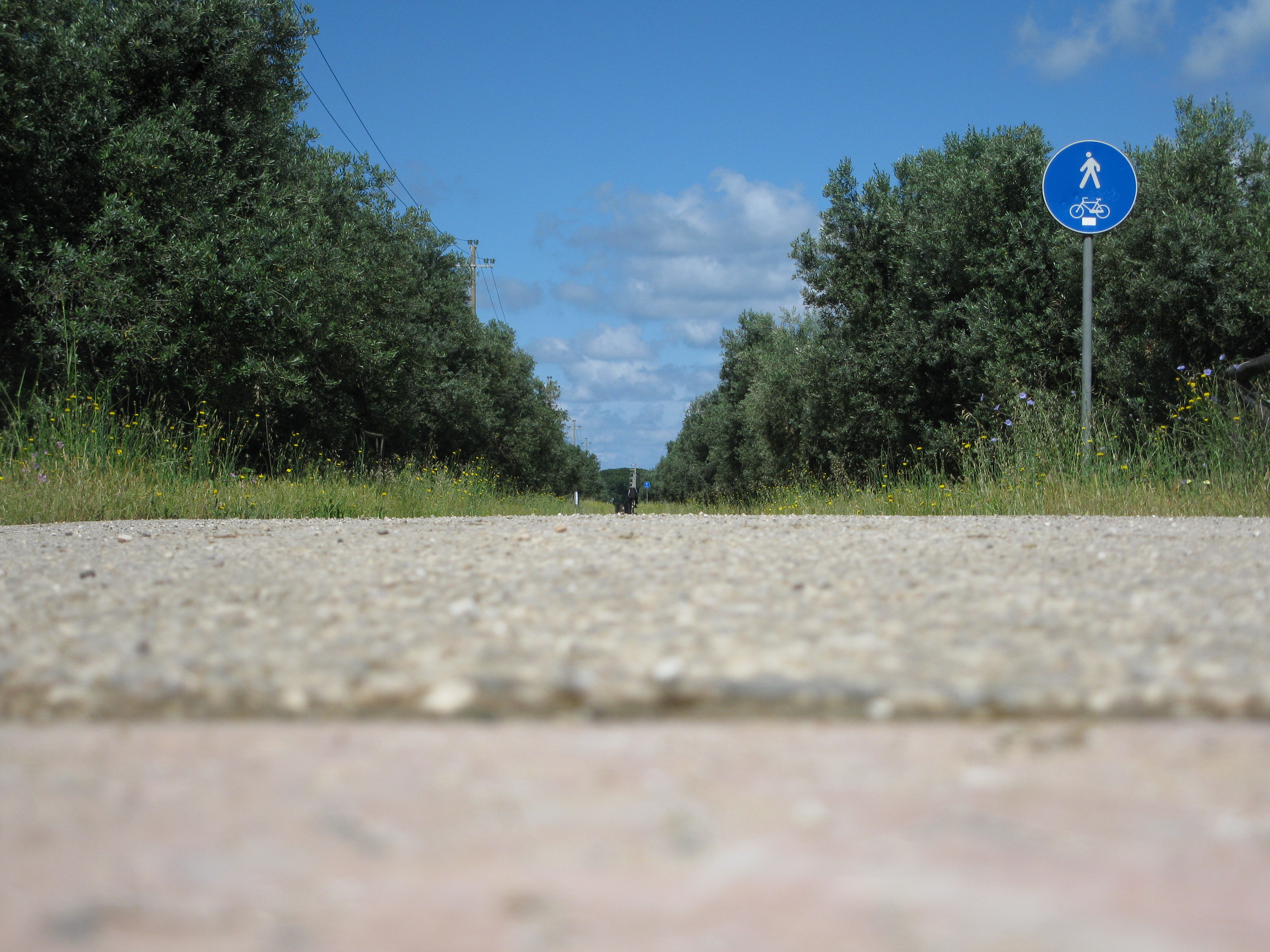 Cycle track from the railway station of Castagneto Carducci-Donoratico to Marina di Castagneto Carducci